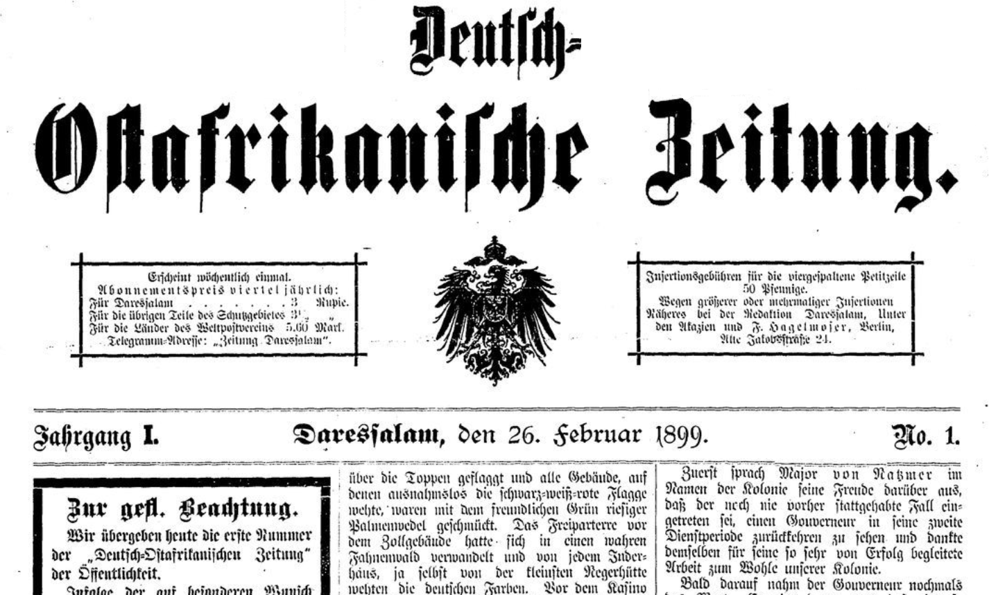 title of Deutsch-Ostafrikanische Zeitung 1899 No.1, Dar es Salaam (first issue)